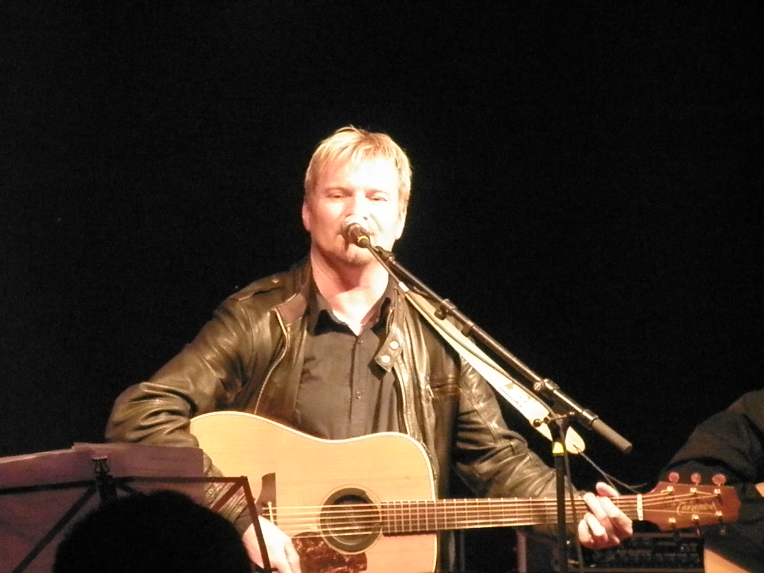 Hallur Joensen is a Faroese country singer. This photo was taken at a concert in Tvøroyri, Faroe Islands in an old salt silo.